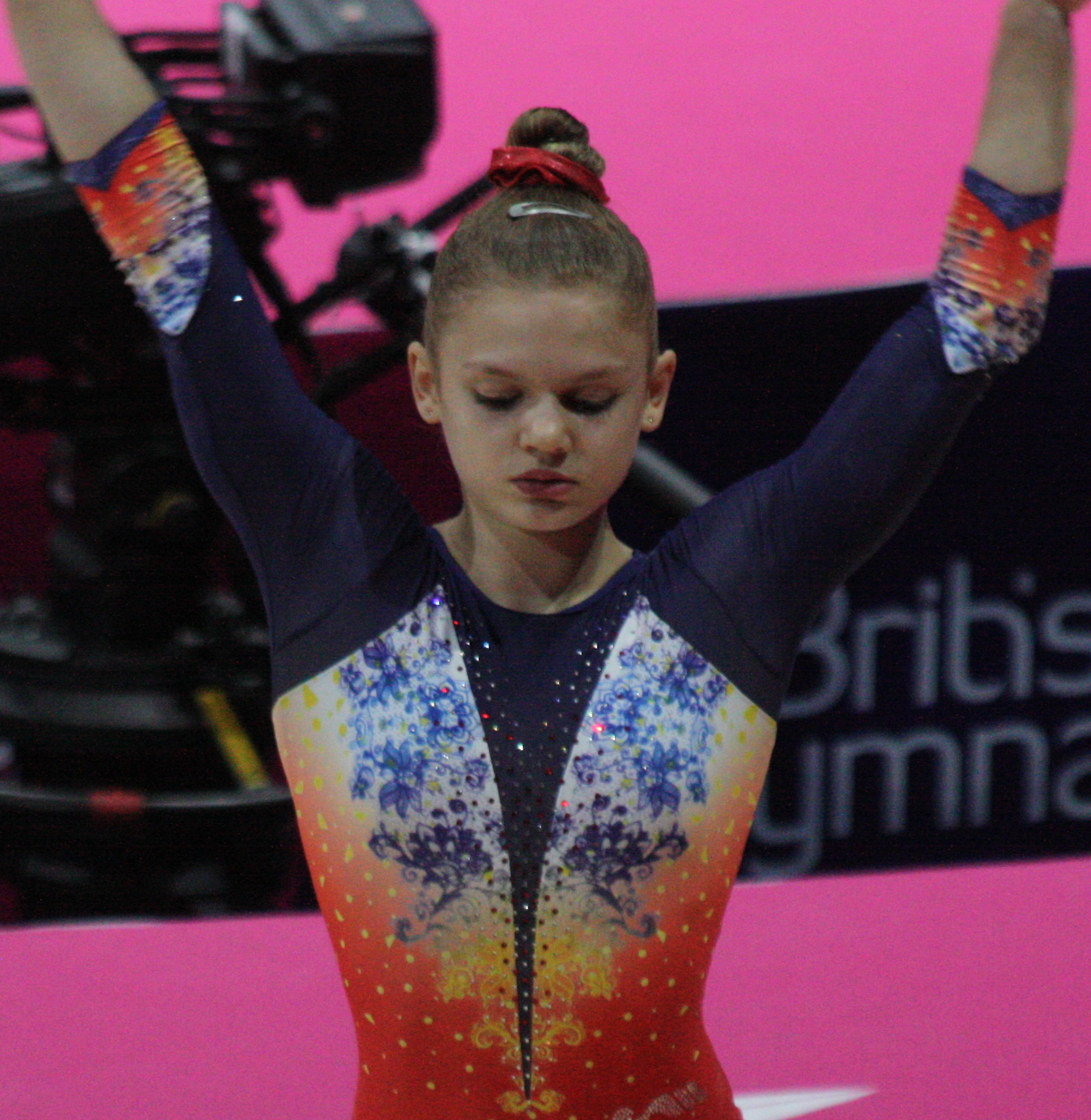 Denisa Golgotă during the qualifications at the European championships in Glasgow in 2018.